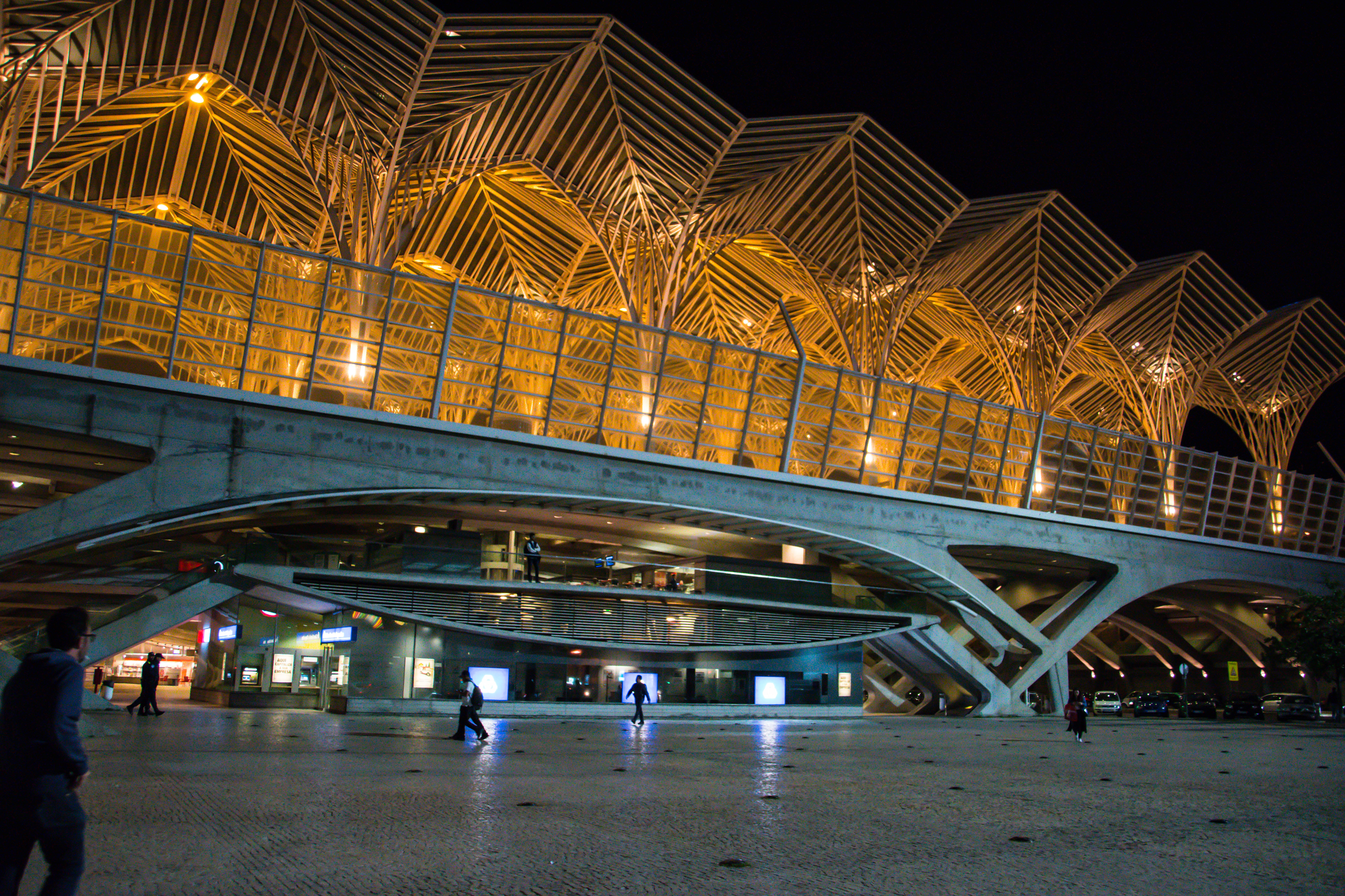 Gare do Oriente train station, Lisbon, Portugal